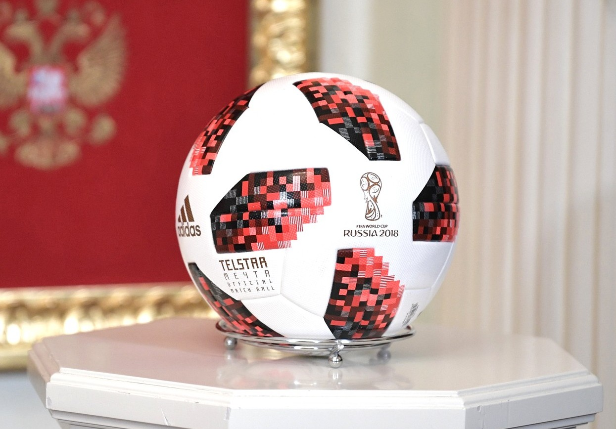 This was an Adidas Telstar Mechta Ball which appeared on the handover ceremony of the 2022 FIFA World Cup host mantle to Qatar on July 15th in Kremlin.It was one of two official balls of the 2018 FIFA World Cup as well.